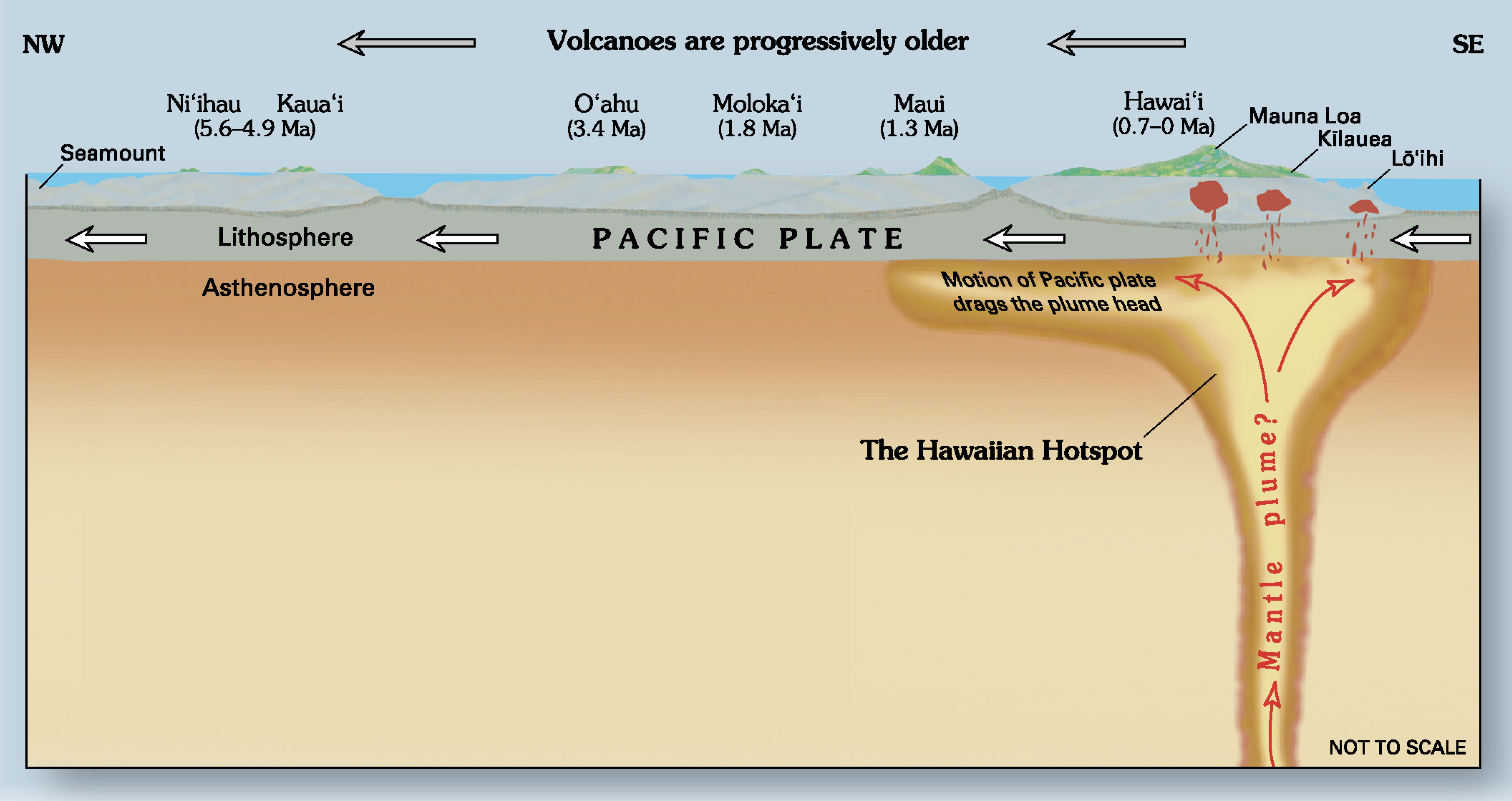 A diagram showing the Hawaii hotspot and the inferred underlying mantle plume in cross-section.